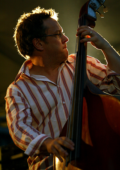 Bassist Nick Haywood performs at the Midi Jazz Festival 2005 in northwestern surburbs of Beijing, capital of China, May 15, 2005.